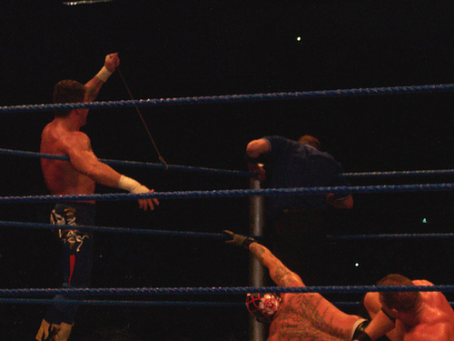 Eddie Guerrero, Rey Mysterio and Luther Reigns @ Adelaide, South Australia 'Smackdown' house show on the 10th of April '05Eddie Guerrero, Rey Mysterio & Luther Reigns